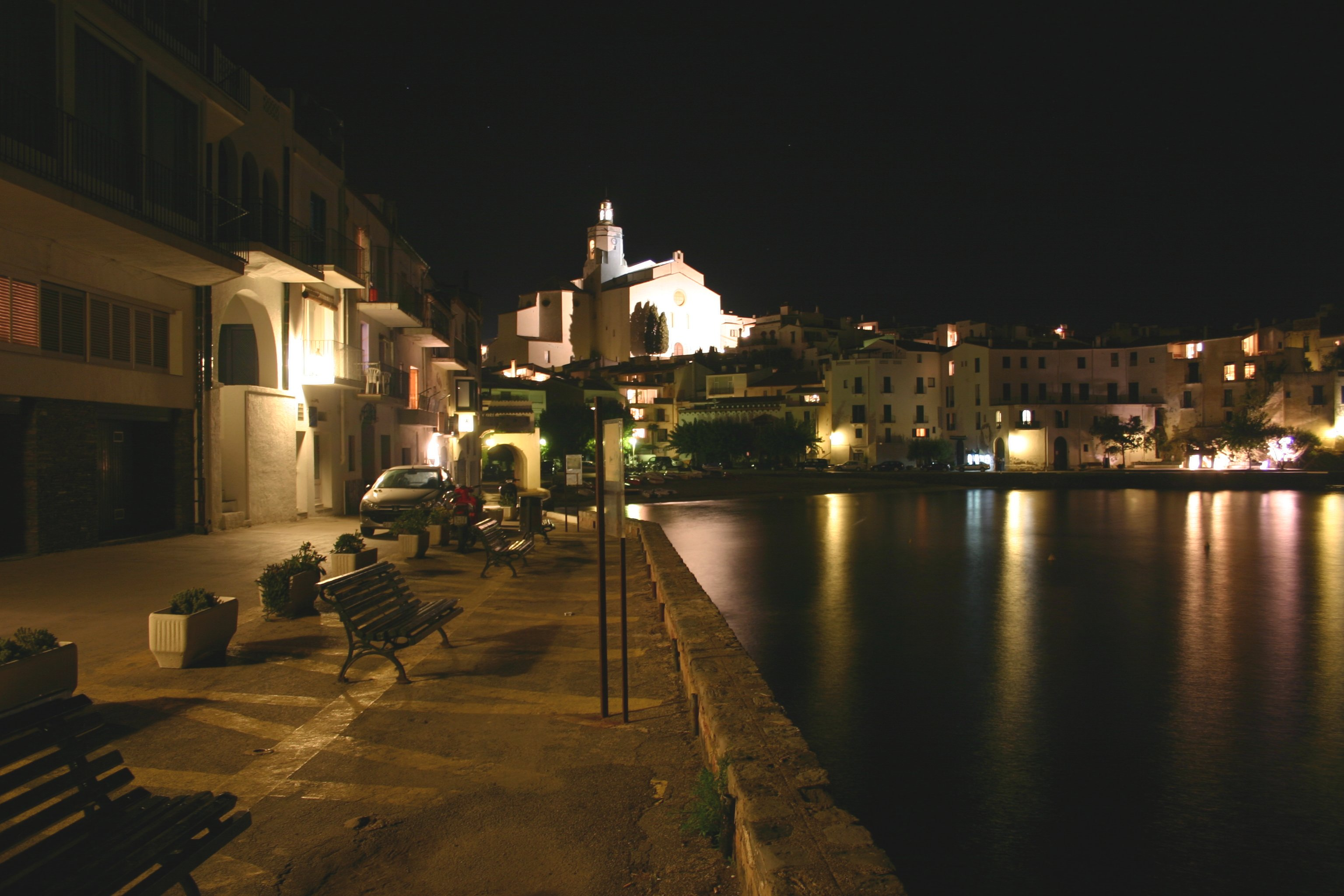 Cadaqués at night, Girona